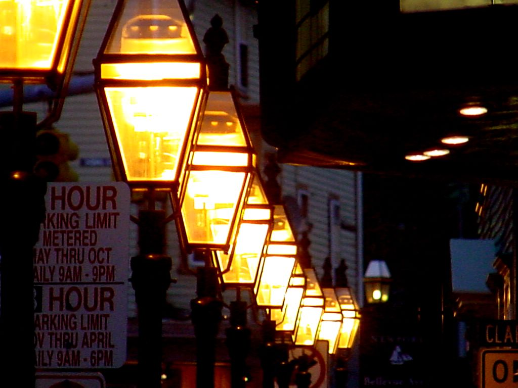 Street lights in Newport, Rhode Island, USANewport, Rhode Island